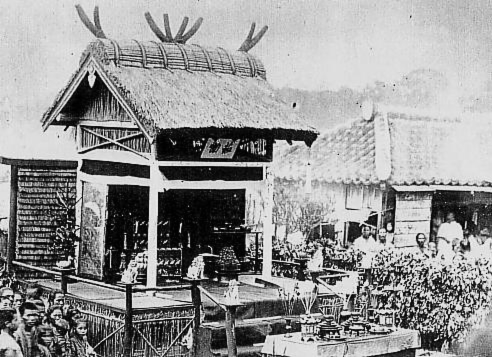 Funeral of Marquis Sho Tai